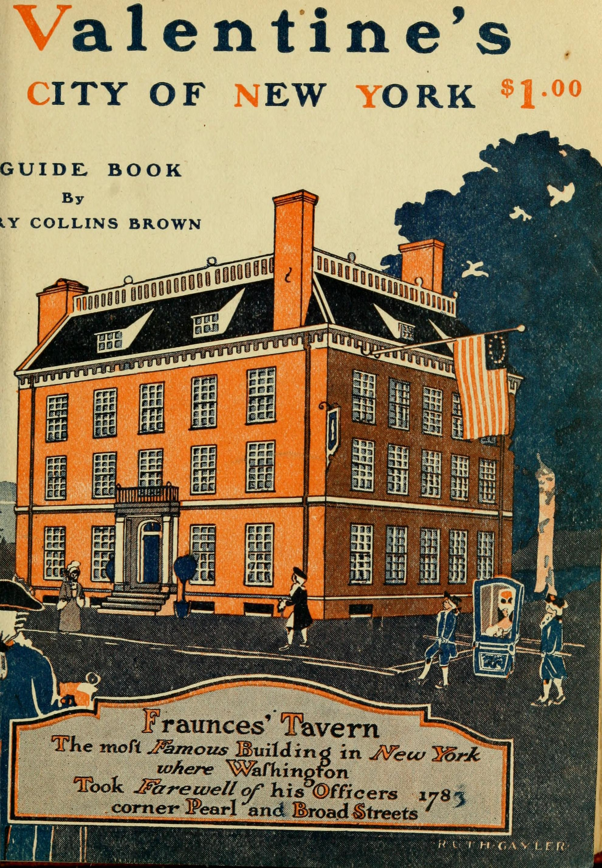 Cover of Valentine's City of New York guide book, published 1920. LOC:20005206. Fraunces Tavern, "the most famous building in New York" is depicted on the cover.